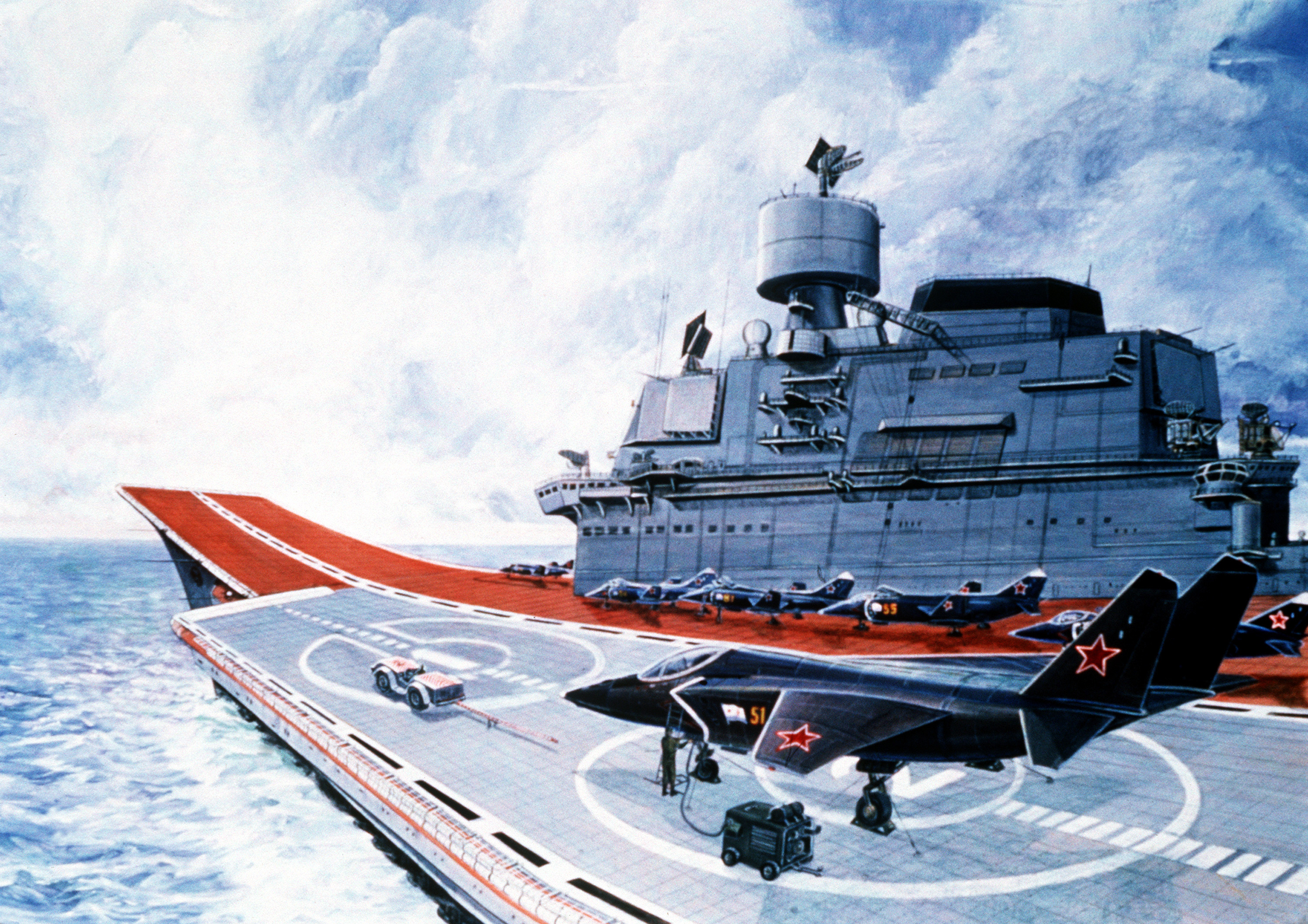 An artist's depiction of a Soviet Tbilisi class aircraft carrier with an Yak-41 Freestyle aircraft being serviced on deck.